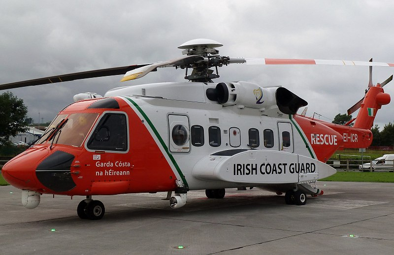 Taken at University College Hospital Galway, Ireland